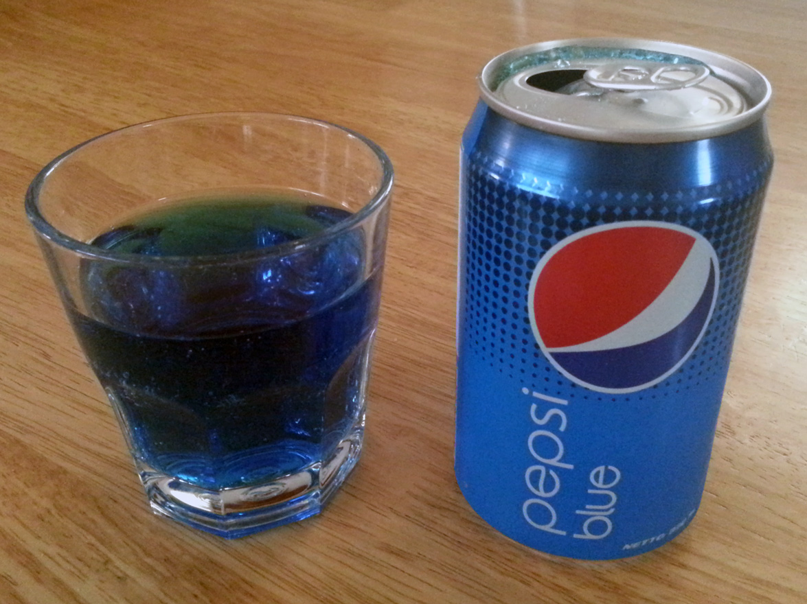 A can and glass of Pepsi Blue made in Indonesia.